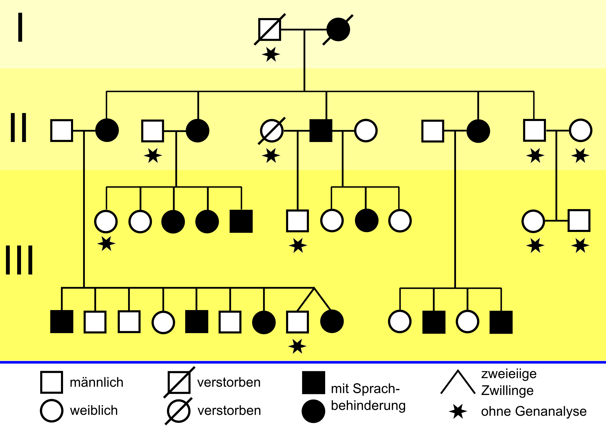 The pedigree of the KE Family from London. Some family members (shaded ones) have a genetic disorder on a gene named FOXP2.